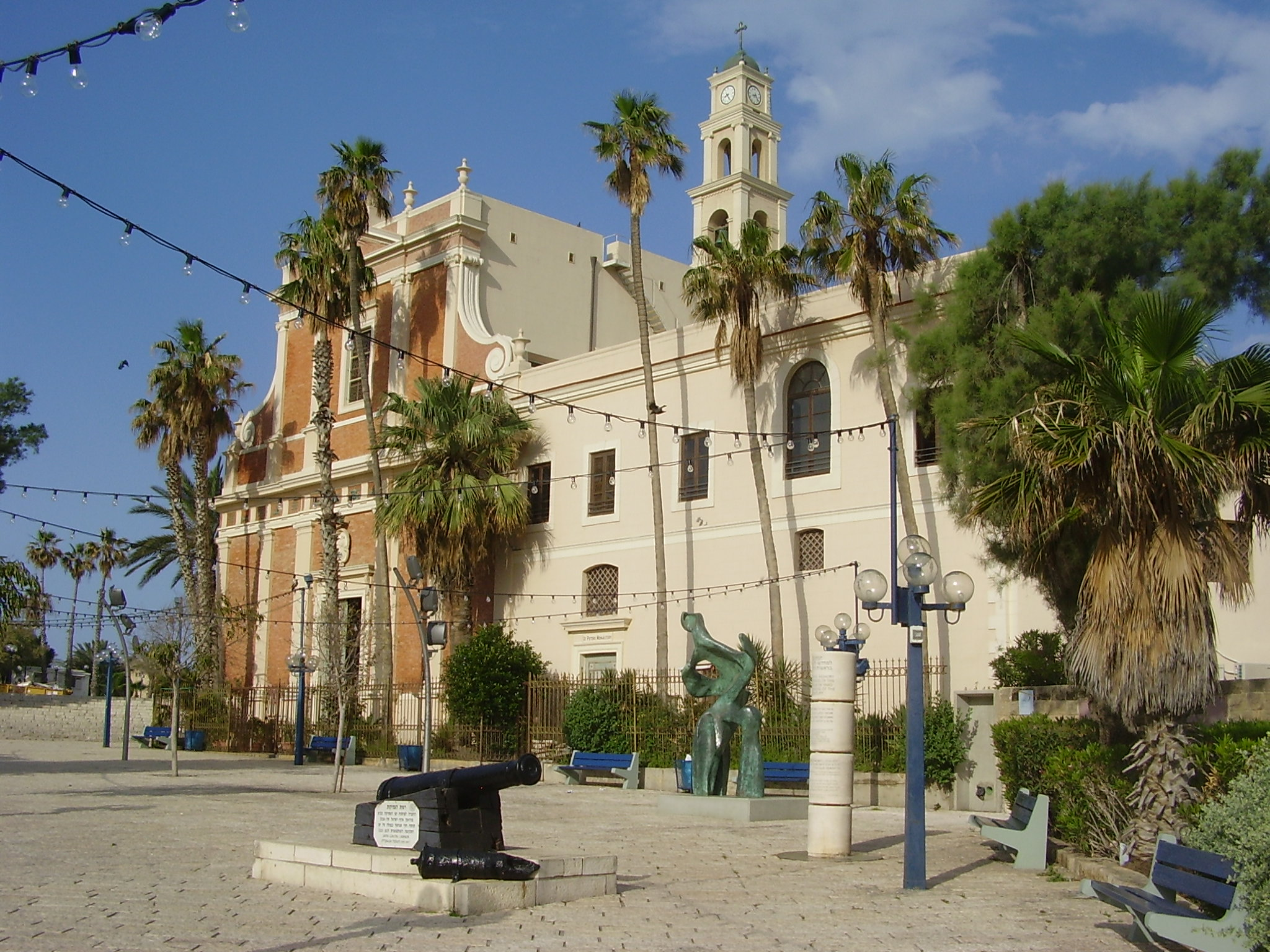 st. peter\'s church in jaffa